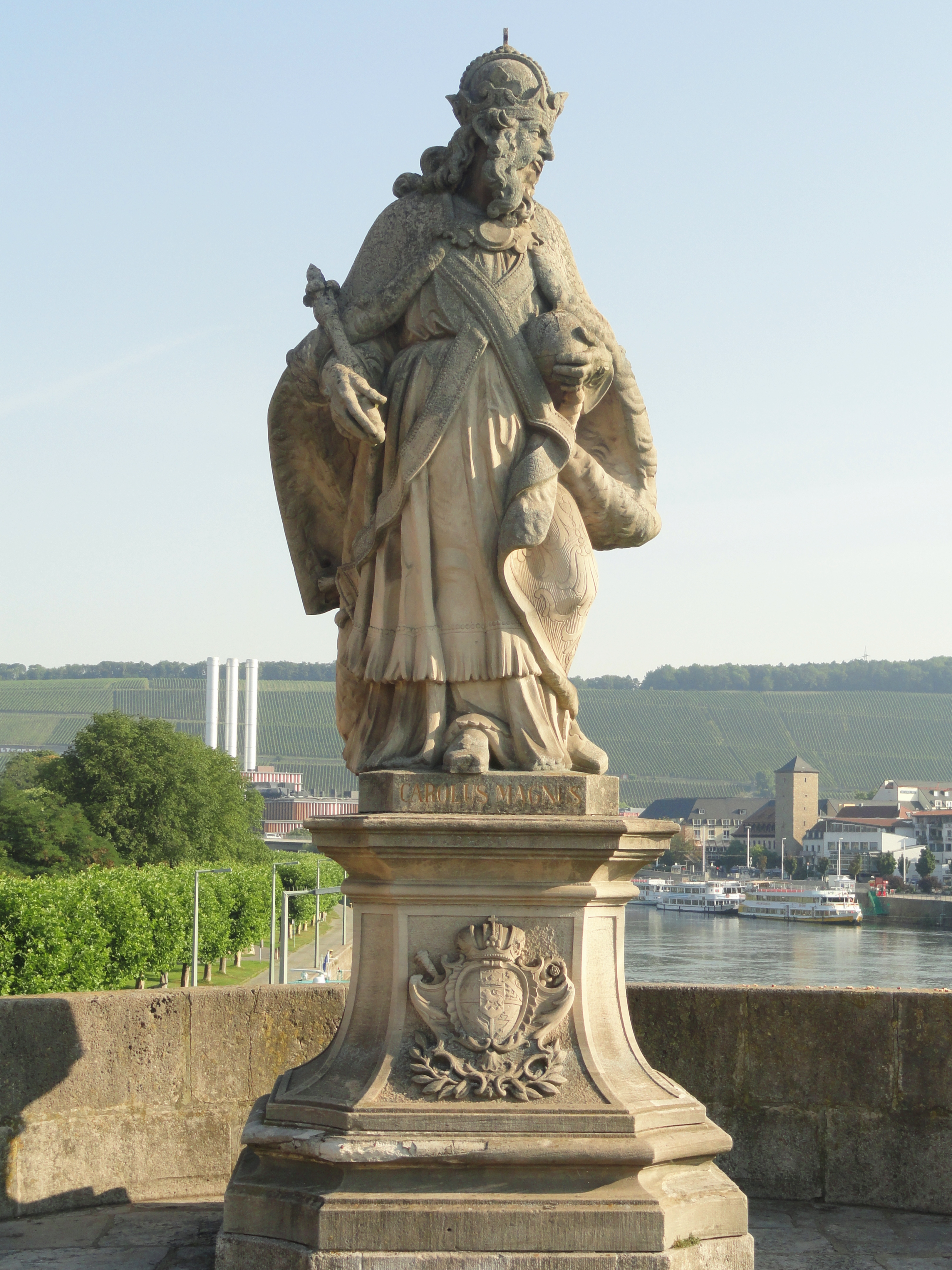 Statue on the Alte Mainbrücke in Würzburg, Germany.